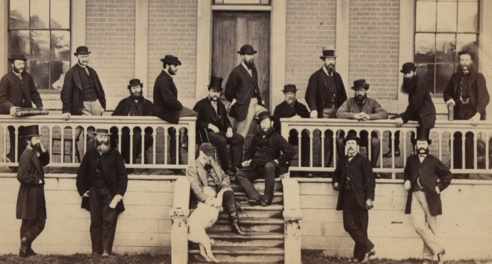 A group of members of the Legislative Council of the Colony of British Columbia in Victoria, Vancouver Island, British Columbia. This is a crop of an image which is part of the Colonial Office photographic collection held at The National Archives in the United Kingdom, and the original caption reads: "A group of the Legislative Council. Victoria V.I.".